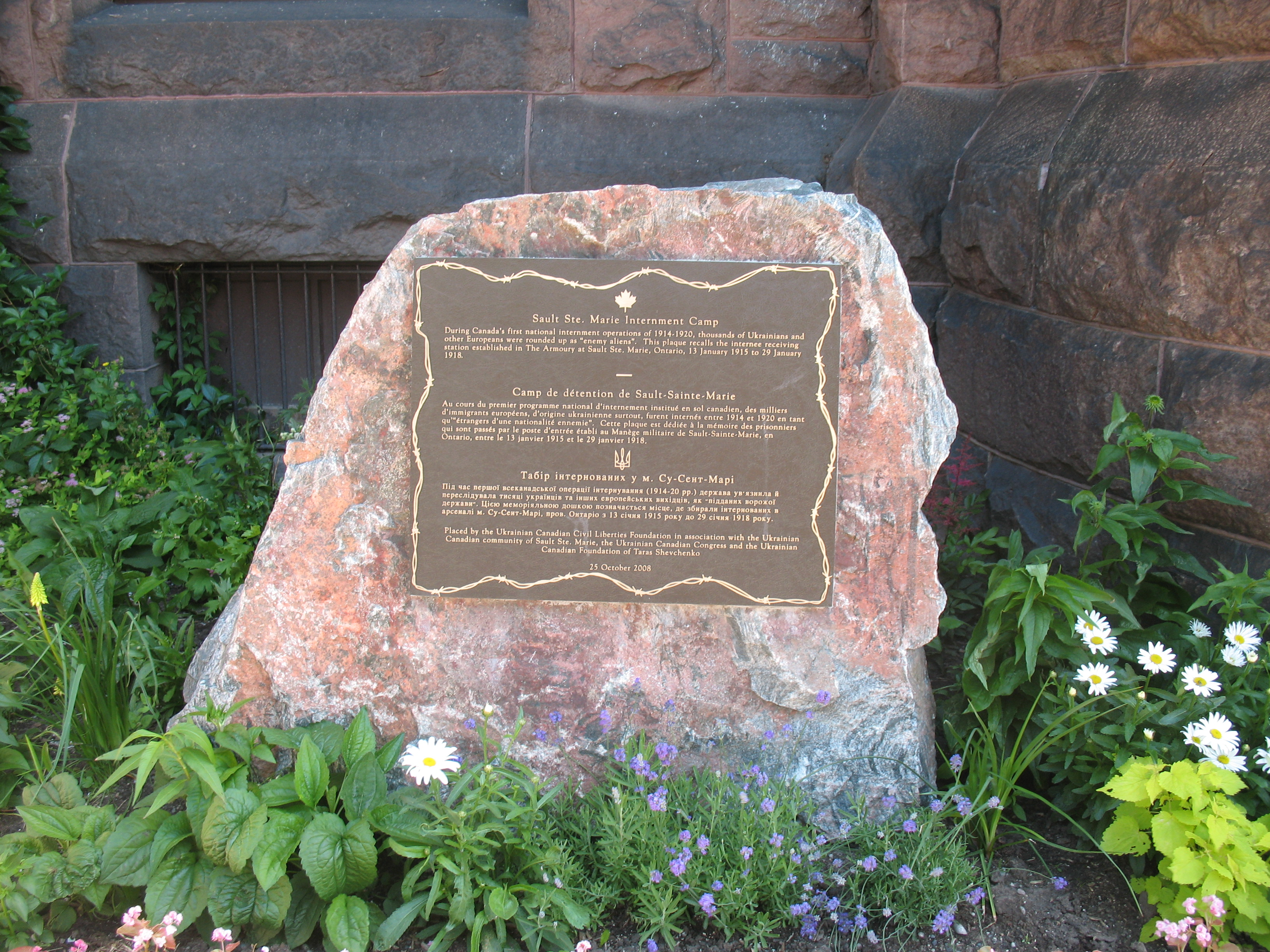 plaque_in Sault Ste. Marie remembering the internment camps of 1915-18